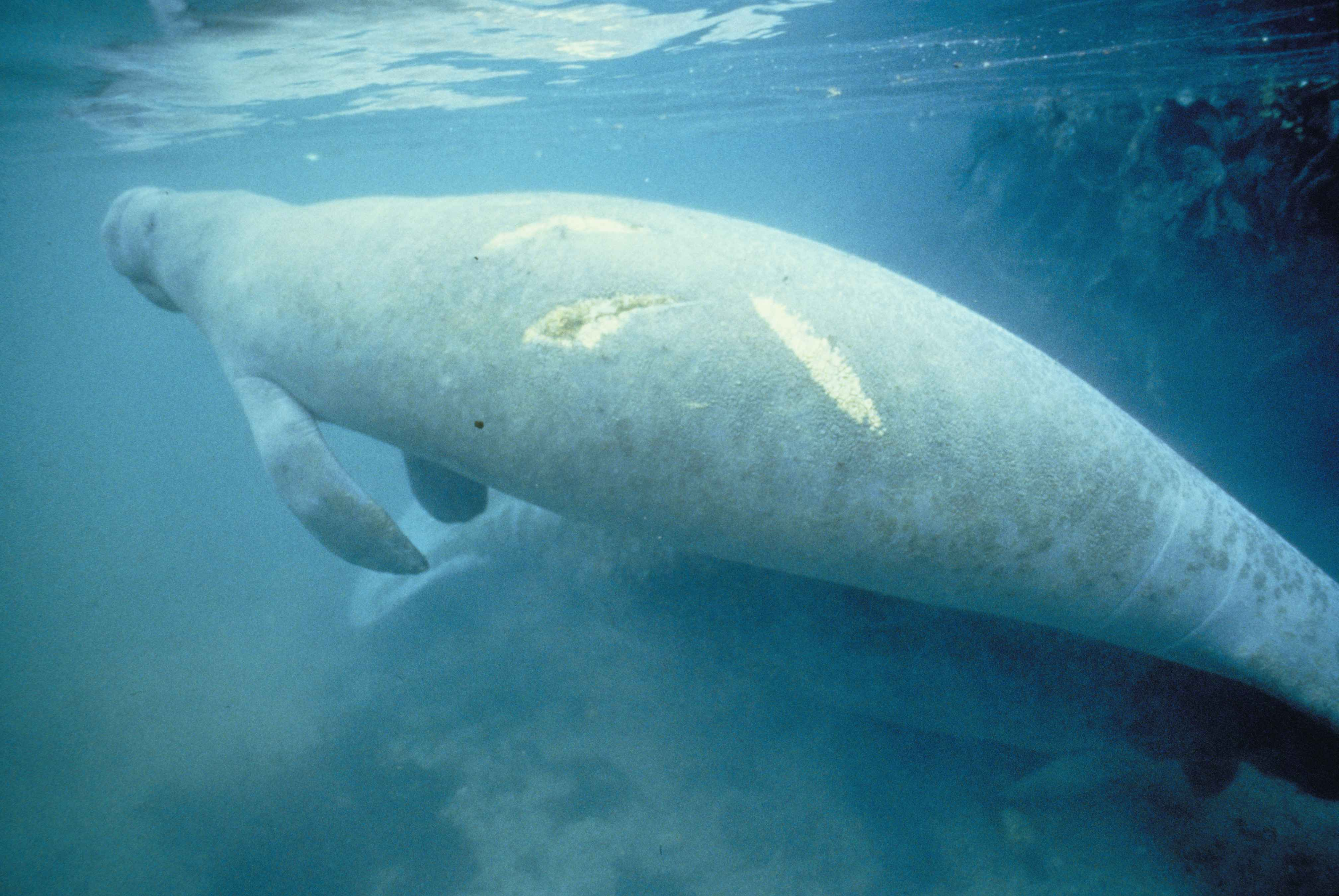 Image title: Manatee bearing scars on back from boat propeller Image from Public domain images website